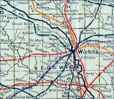 Stouffer's Railroad Map of Kansas, 1915-1918, Sedgwick County.